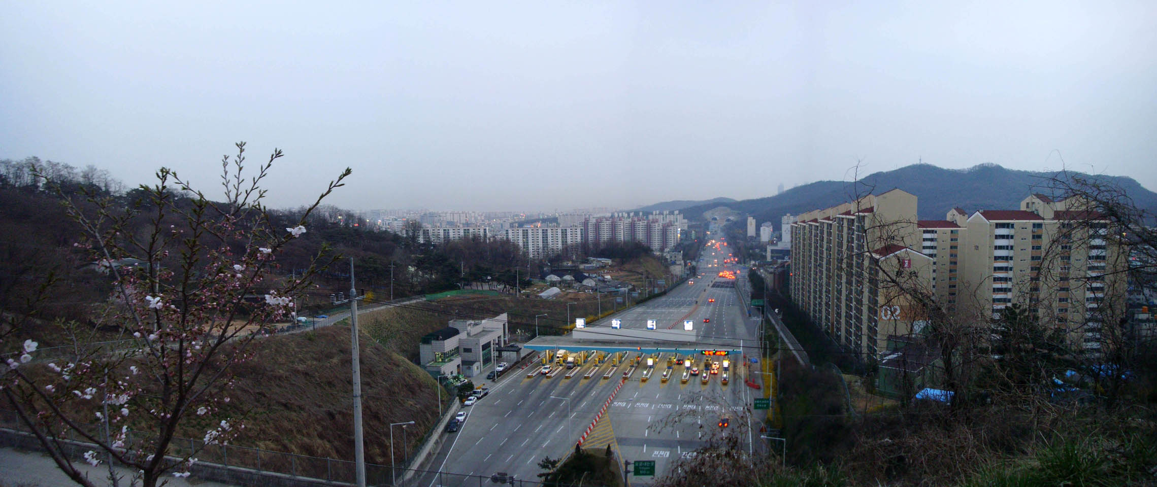 Munhaksan (Mt.) Tunnel Tollgate